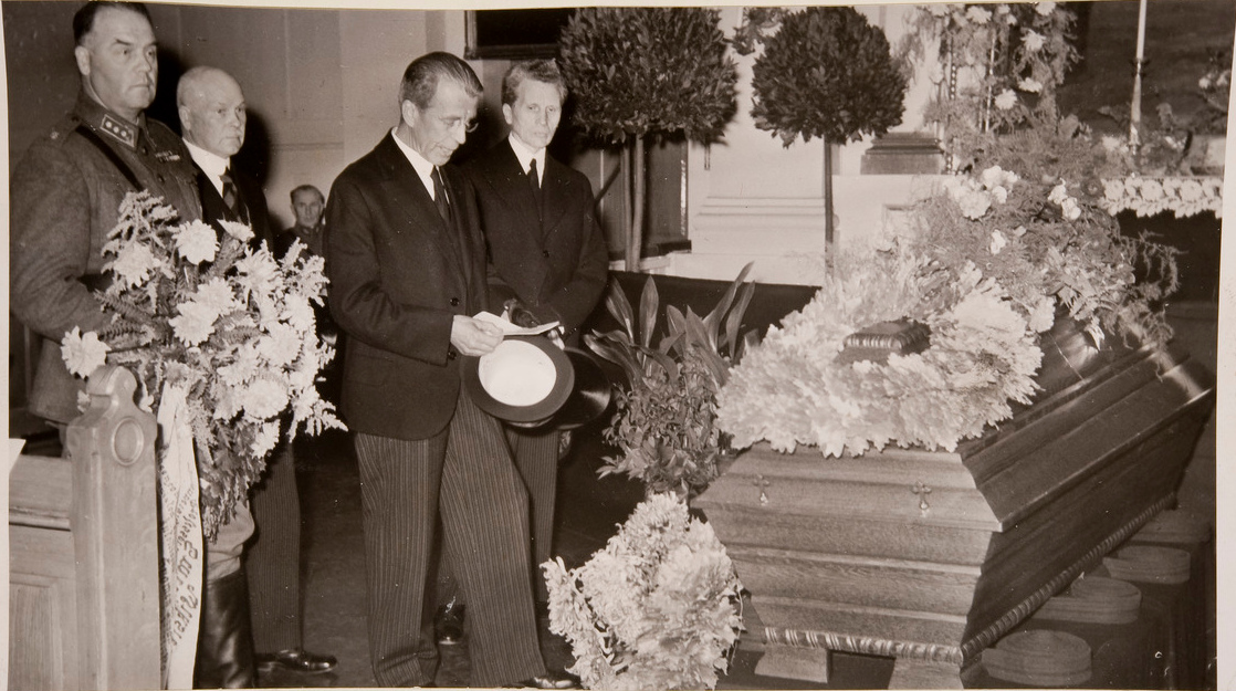 Representatives of The Association of Finnish Sculptors (Suomen Kuvanveistäjäliitto), Lauri Leppänen, Eemil Halonen, Johannes Haapasalo and Yrjö Liipola put down a wreath by the coffin of Emil Wikström in Helsinki Old Church.